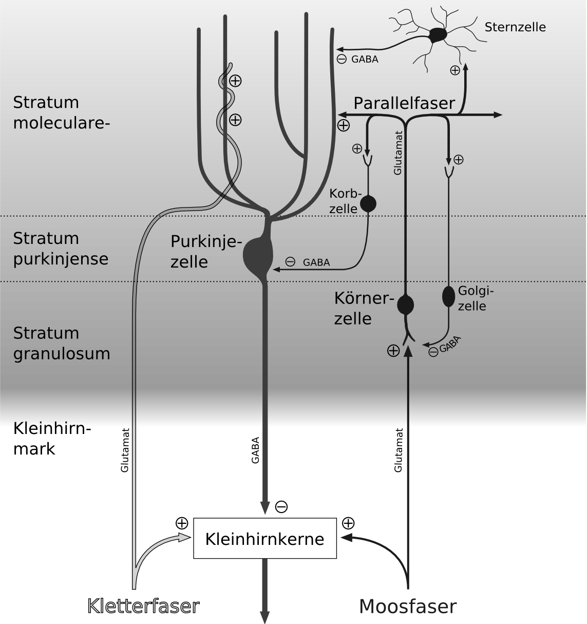 Diagram of the cerebellar circuitry